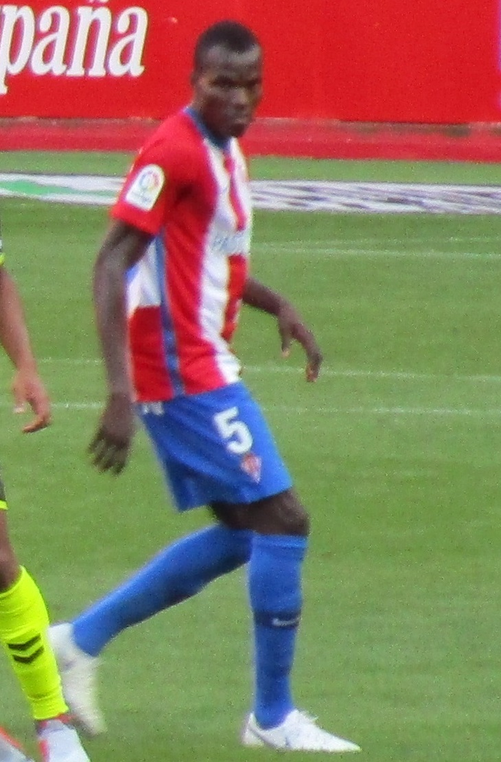 Isaac Cofie, Ghanaian player, for Sporting Gijón